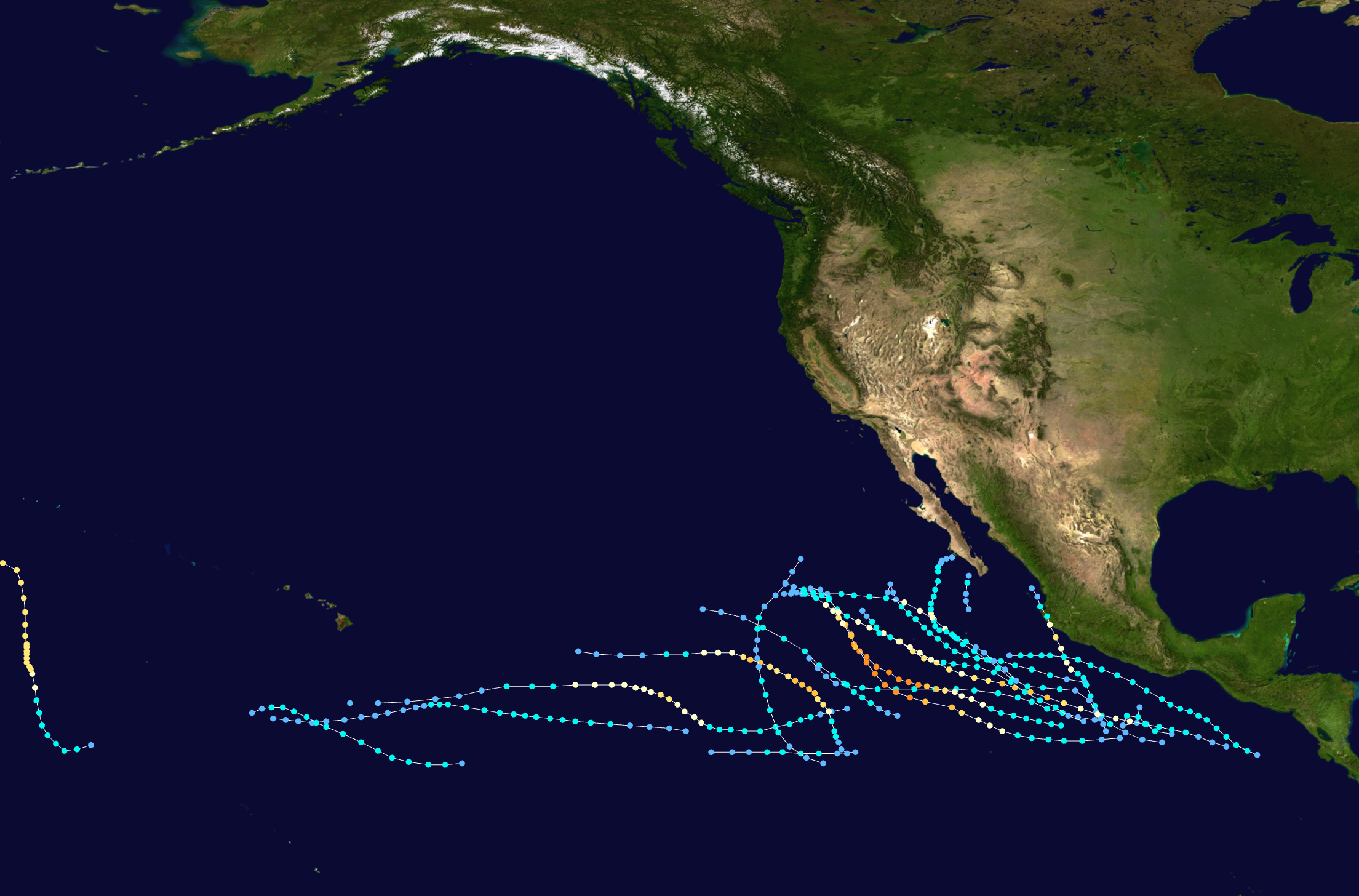 This map shows the tracks of all tropical cyclones in the 1987 Pacific hurricane season. The points show the location of each storm at 6-hour intervals. The colour represents the storm's maximum sustained wind speeds as classified in the Saffir-Simpson Hurricane Scale (see below), and the shape of the data points represent the type of the storm. Saffir–Simpson scale Tropical depression≤38 mph≤62 km/h Category 3111–129 mph178–208 km/h Tropical storm39–73 mph63–118 km/h Category 4130–156 mph209–251 km/h Category 174–95 mph119–153 km/h Category 5≥157 mph≥252 km/h Category 296–110 mph154–177 km/h Unknown Storm type Tropical cyclone Subtropical cyclone Extratropical cyclone / Remnant low / Tropical disturbance / Monsoon depression